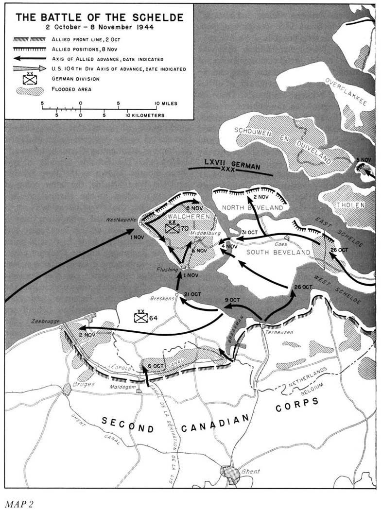 The Battle of the Scheldt, 2 October-8 November 1944.